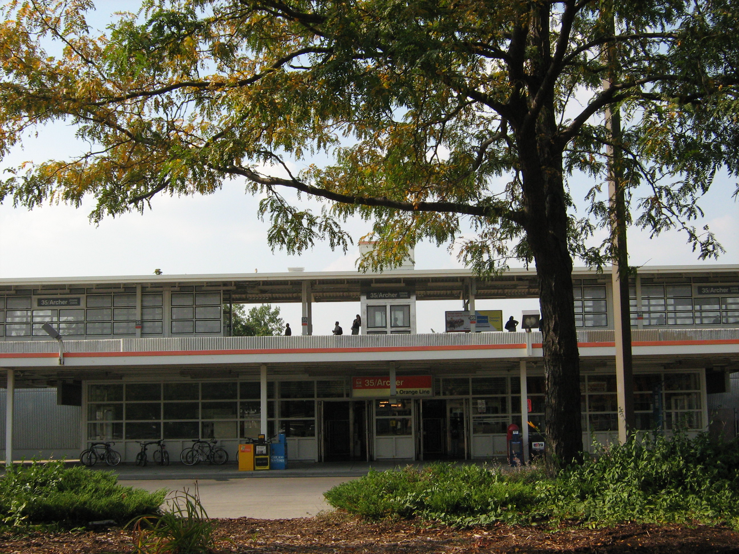 35th Street, Archer Avenue and Leavitt Street (3500 S/2200 W) 3528 S. Leavitt St. Chicago, IL 60609 Orange Line (Midway Branch)